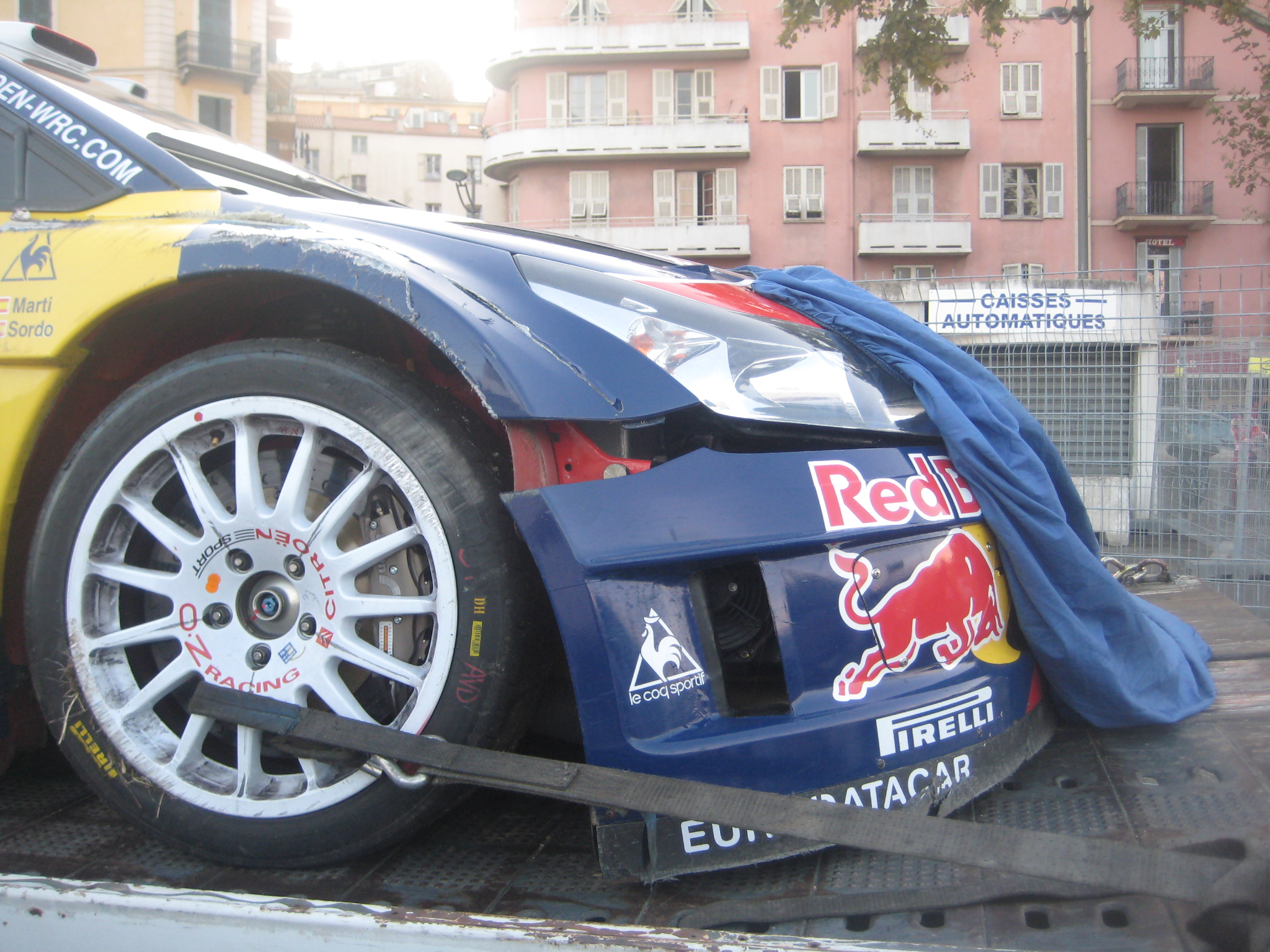 2008 Rallye de France, Day 1-Service B, Dani Sordo - Citroen C4 WRC